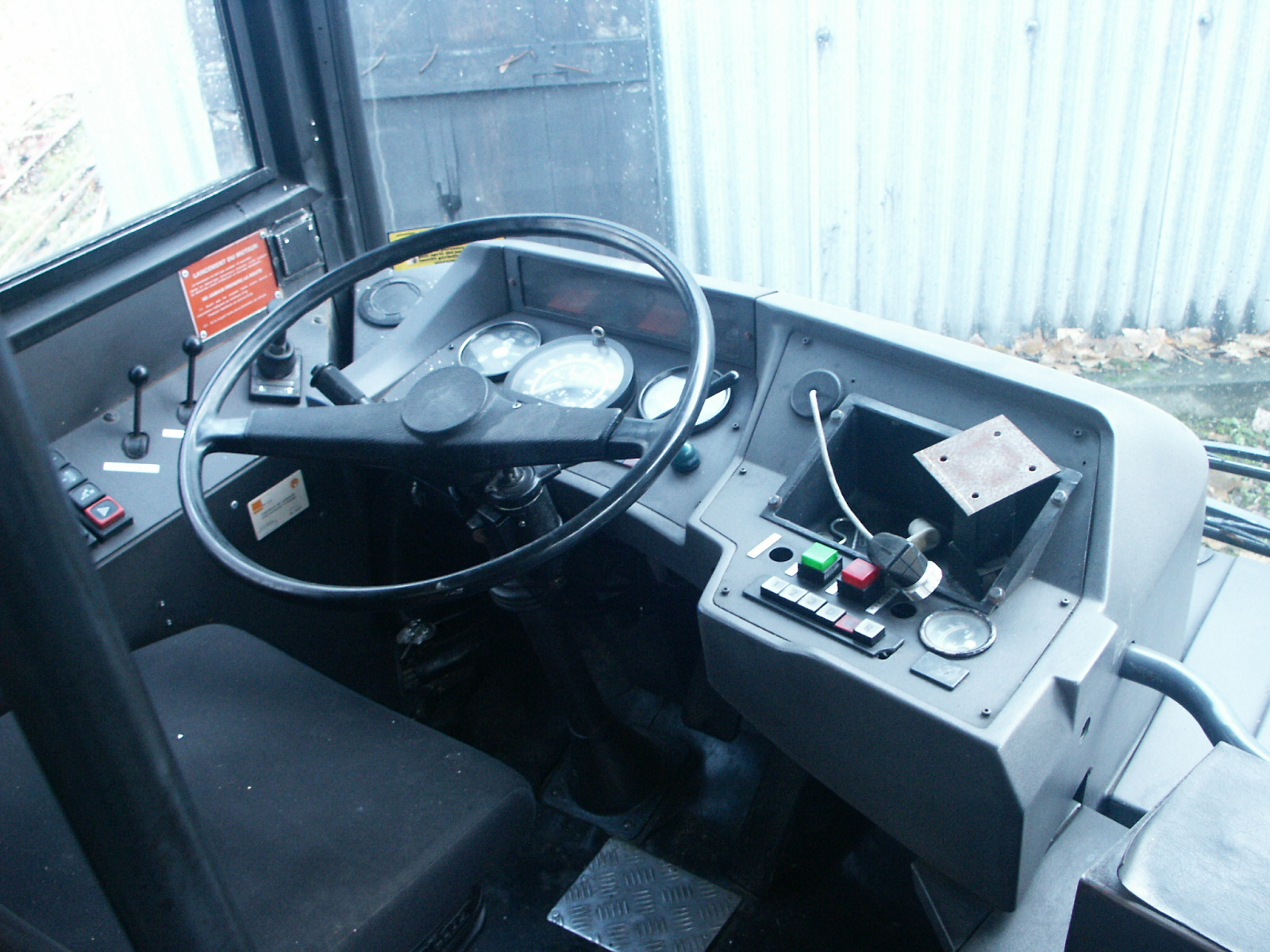 The driving post of an Heuliez GX87S (n°500 of the VFD).